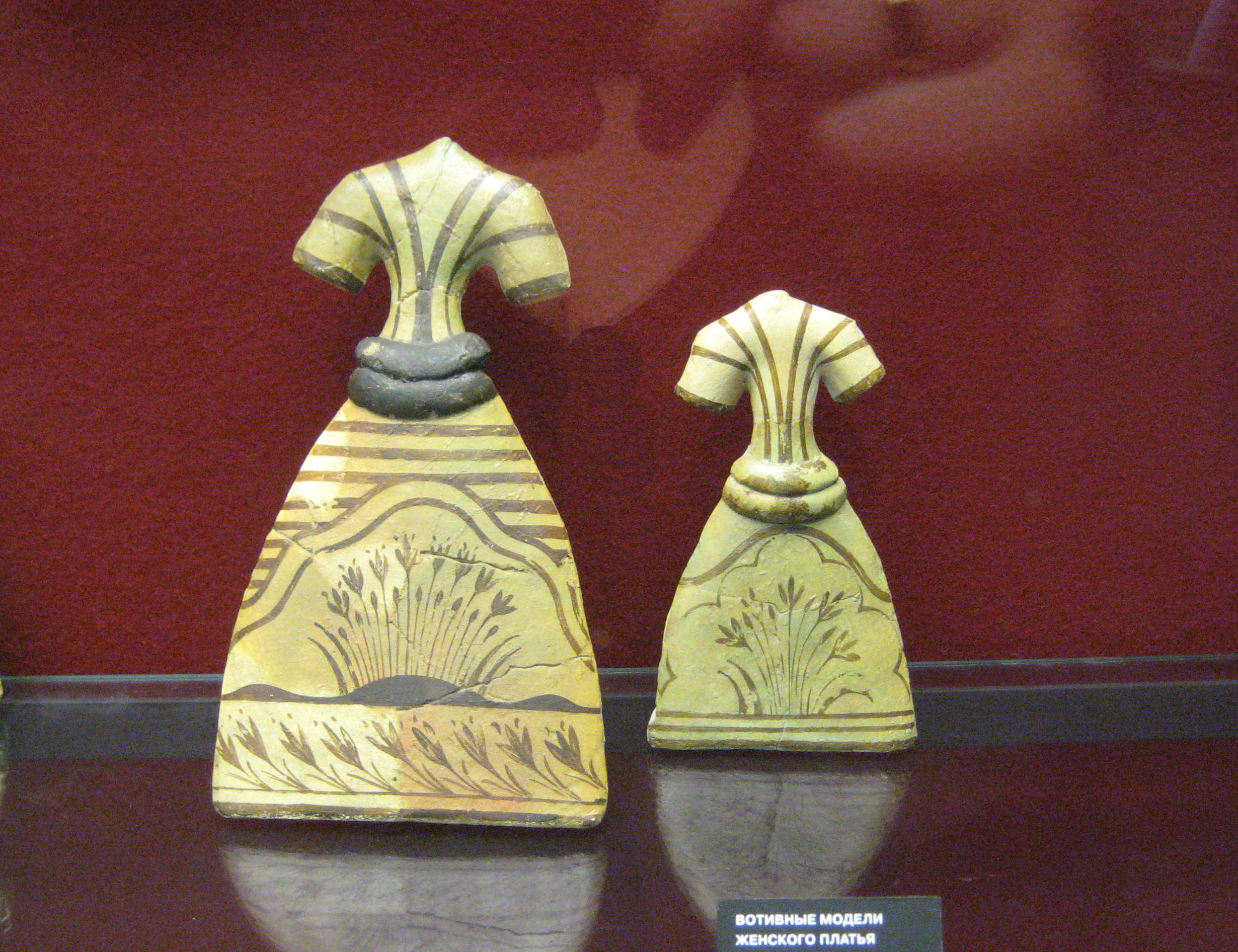 Votive deposit dresses from Minoan hoard with Snake goddess. Original in Herakleion Archeological Museum in Crete. Plaster coloured cast in Pushkin Museum, Moscow